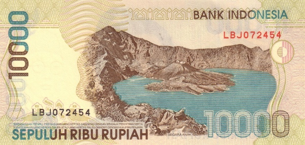 Indonesian currency issued 1998-2005.